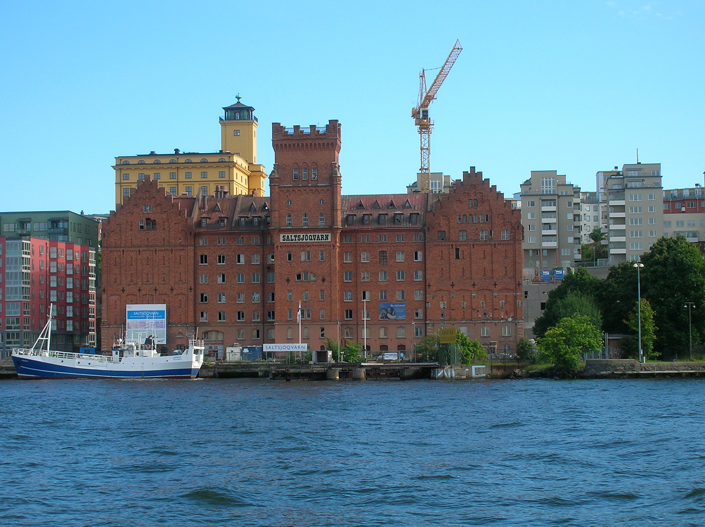 Saltsjökvarn at Danviken, Nacka municipality, Stockholm county. The main building was uses as a mill from the 1890s until the 1990s.